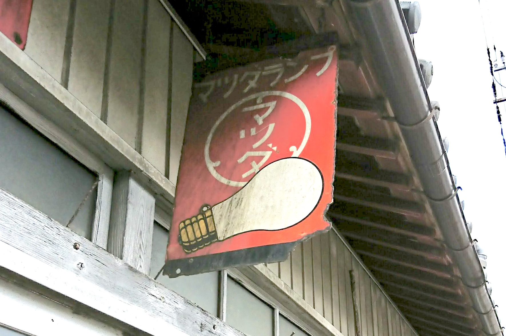 Signs of Mazda Lamp